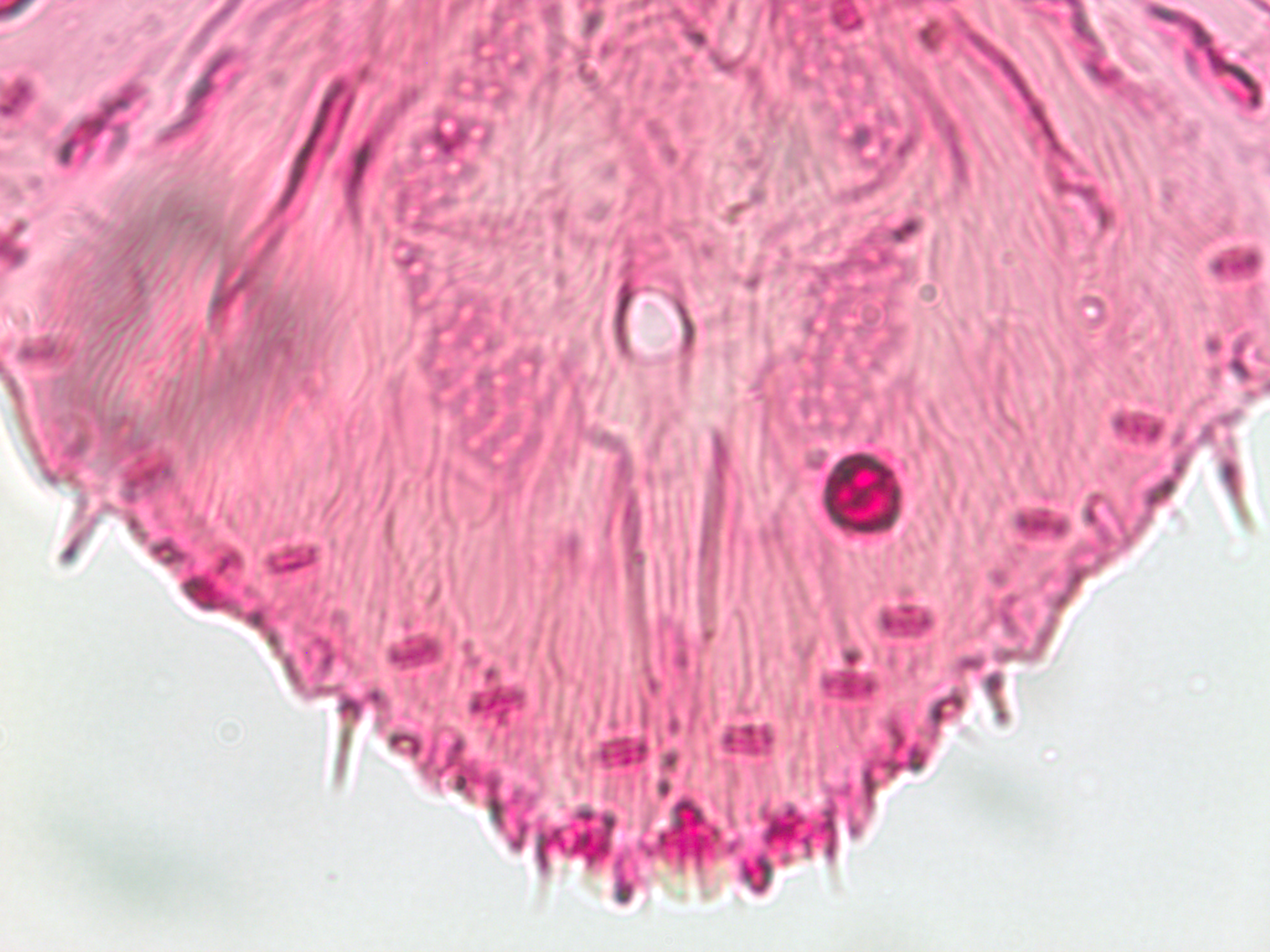 Pygidium of Pinnaspis buxi. Abdominal segments 5-9 form the pygidium. Note the basel zygosis between the median lobes (The darkened patch forming a yoke between the lobes). and the shape of the macroducts, both characteristic of the genus Pinnaspis